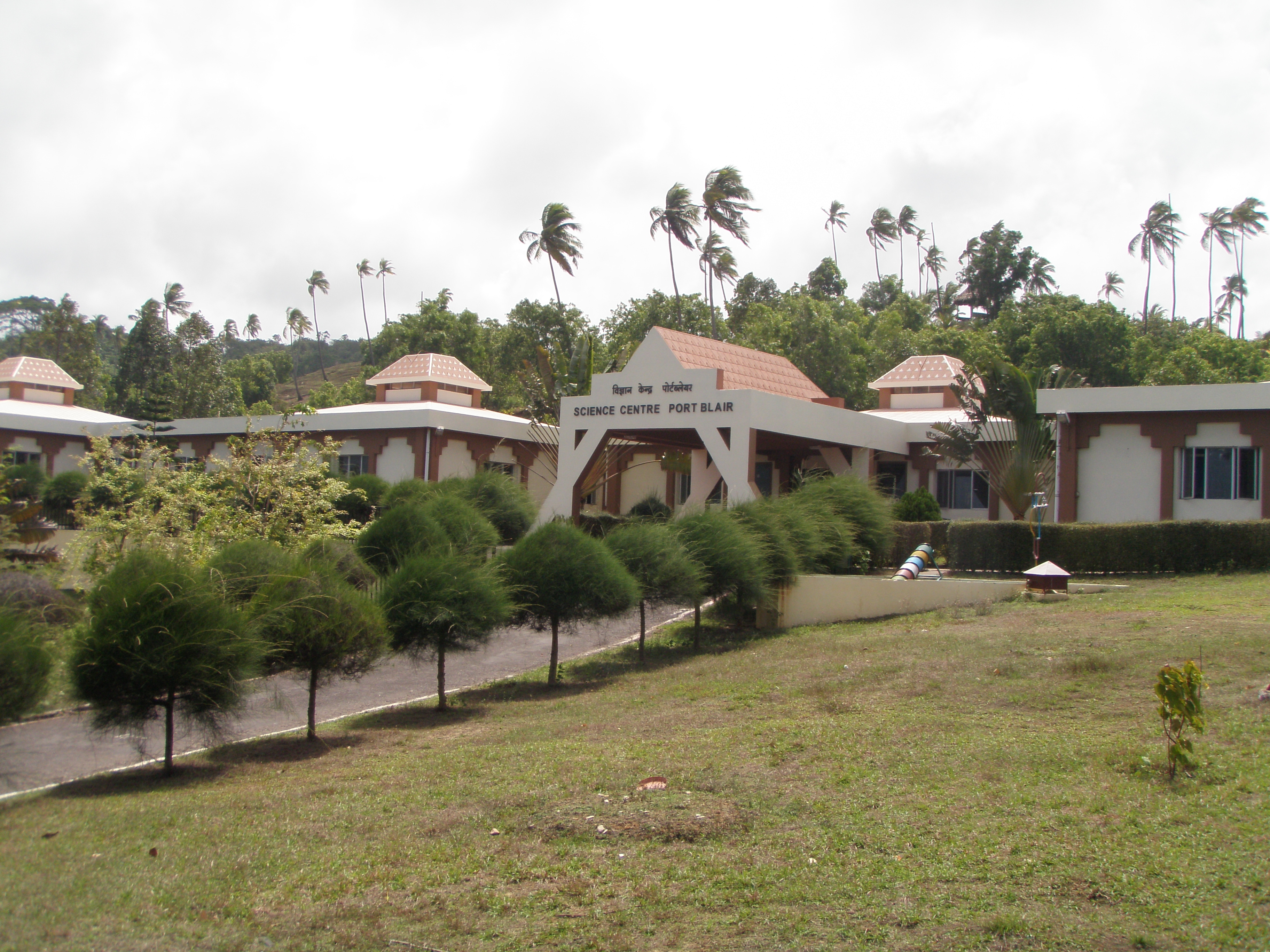 The only Science centre at Andaman & Nicobar Islands, developed by National Council of Science Museums (NCSM).